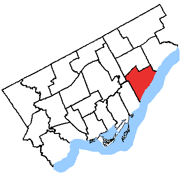 Map of the Scarborough Southwest electoral district. Based on Earl Andrew's :Image:Ct04.PNG and :Image:St04.PNG, created by SimonP.